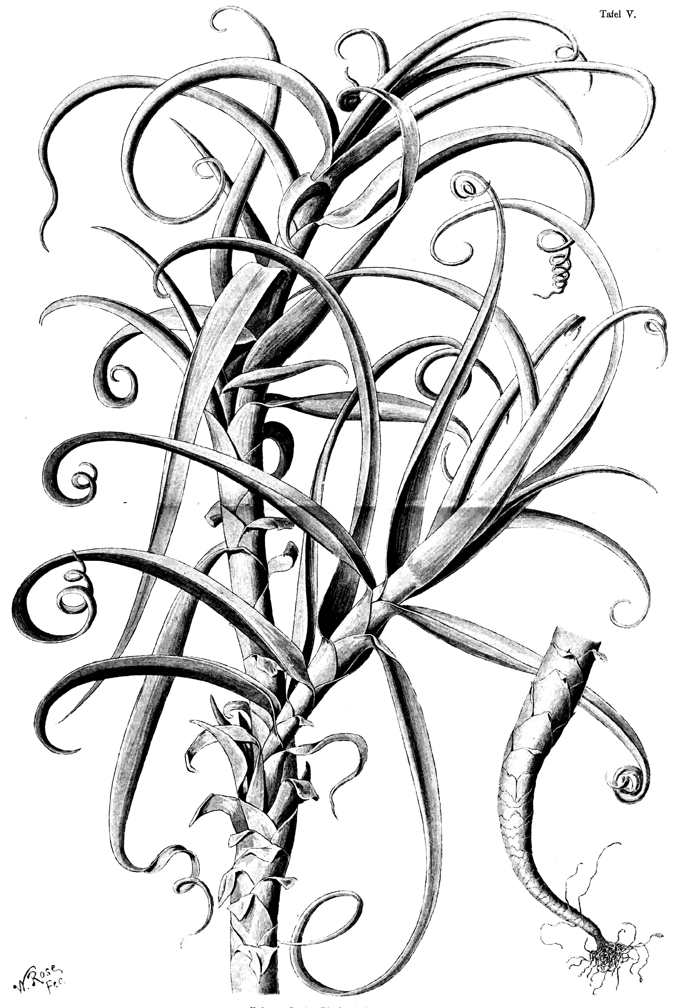 Tillandsia circinalis. Pic. 2 from book